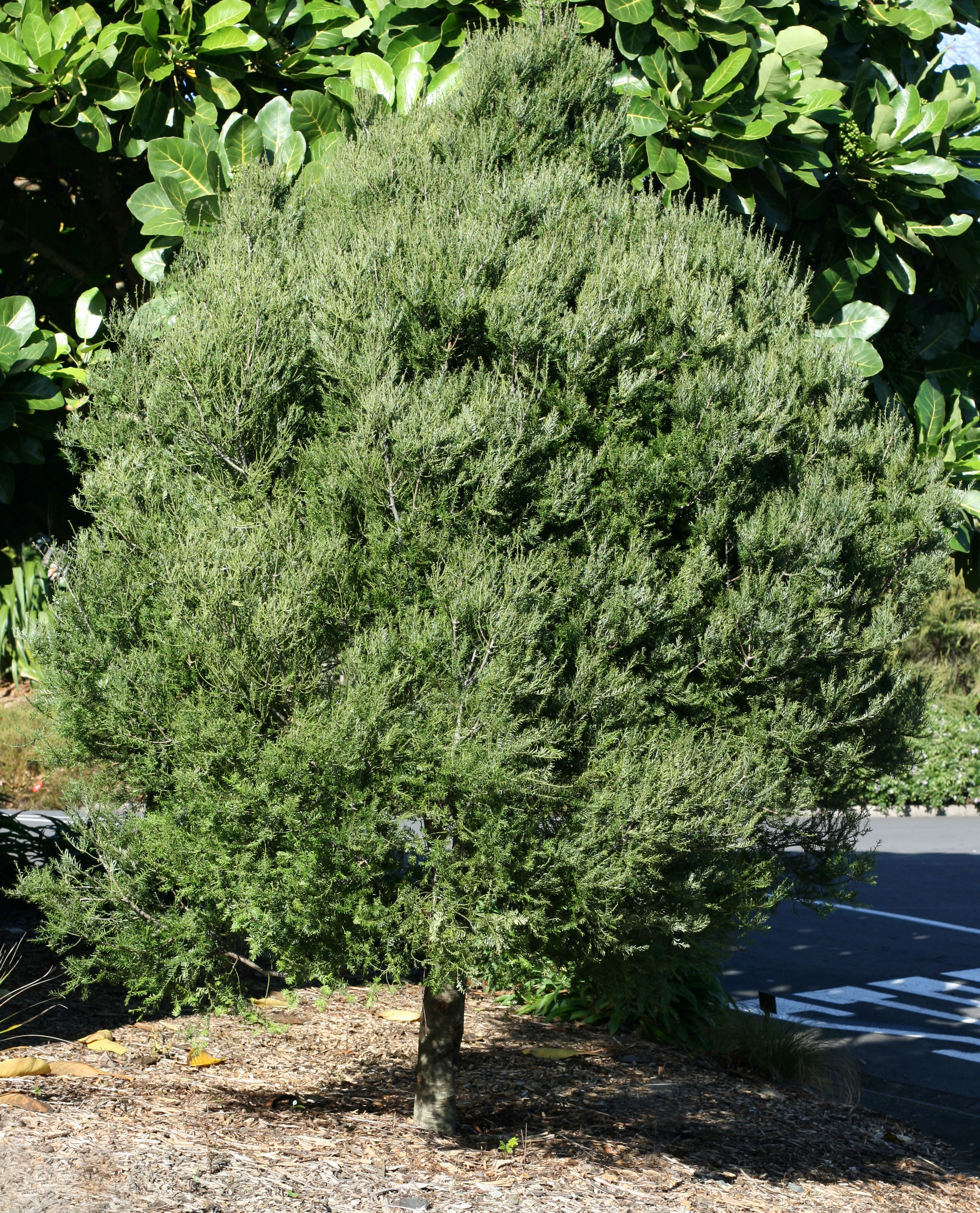 a young Mataī tree, Prumnopitys taxifolia, Podocarpaceae. Endemic to New Zealand. This tree, although small, is adult and has the adult foliage.